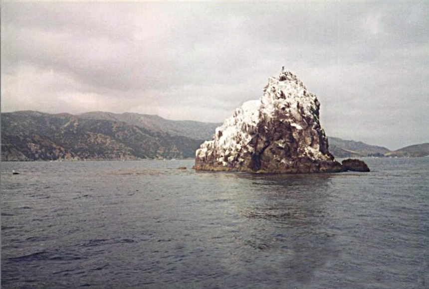 Picture of Ship Rock Catalina California